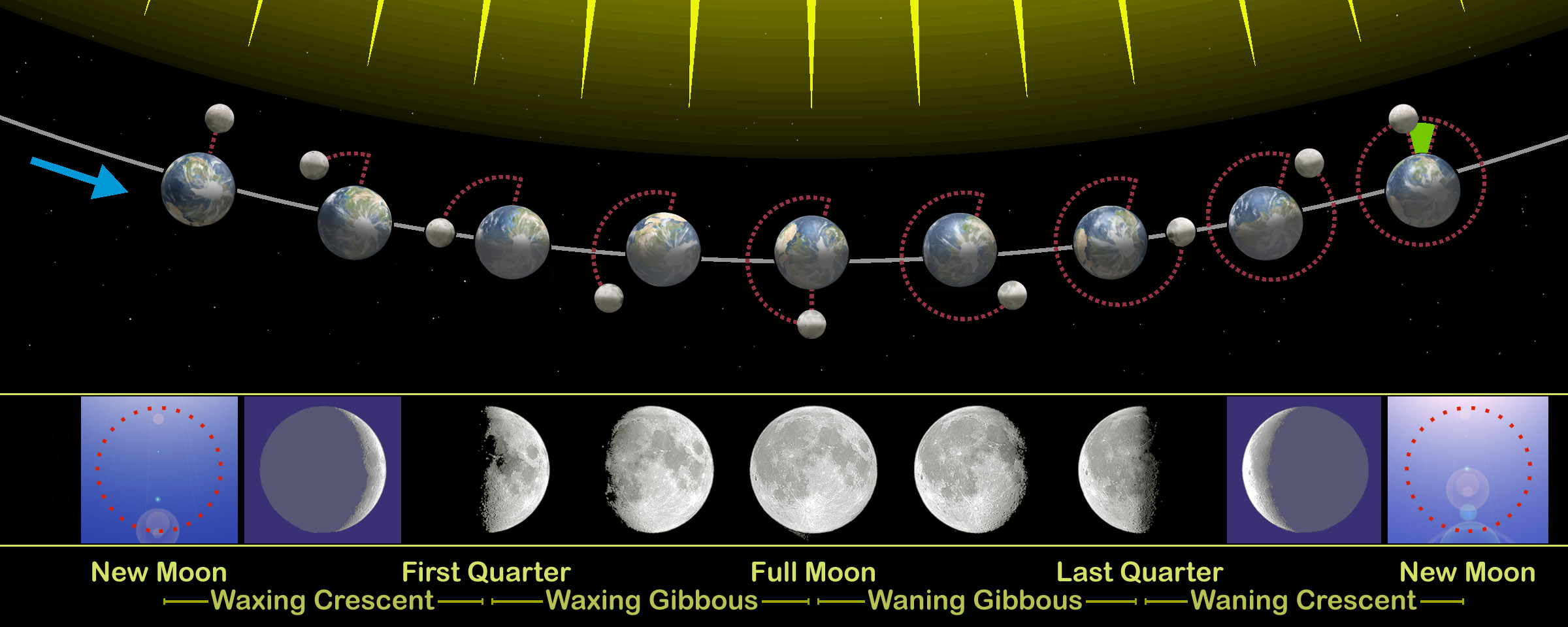 The relation of the phases of the Moon with its revolution around Earth. The sizes of Earth and Moon, and their distance you see here are far from real. On this image the following are also depicted: the synchronous rotation of the Moon, the motion of the Earth around the common center of mass, the difference between the sidereal and synodical month (green mark), the Earth's axial tilt. (NOTE: the precise moment of a New Moon take place in daylight when you can see only the bright Sun.)